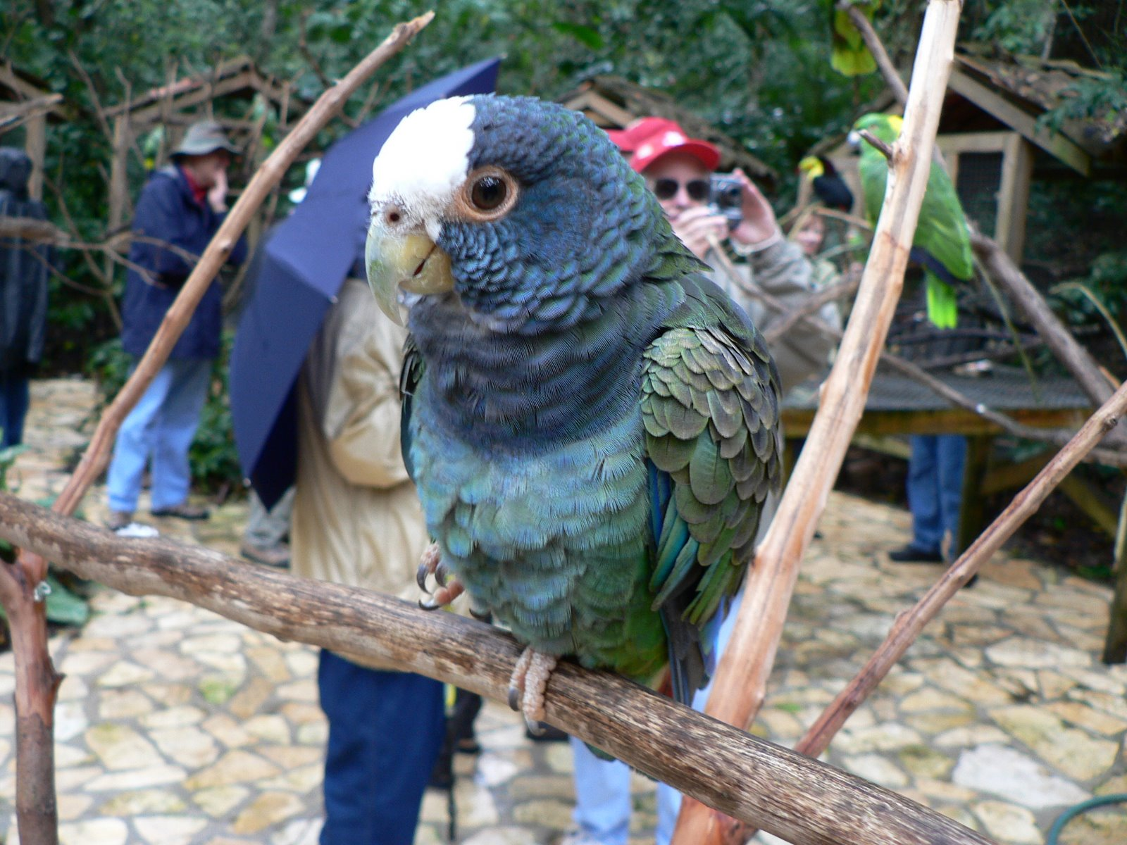 A White-crowned Parrot (also known as White-crowned Pionus) at Macaw Mountain Bird Park, Honduras.